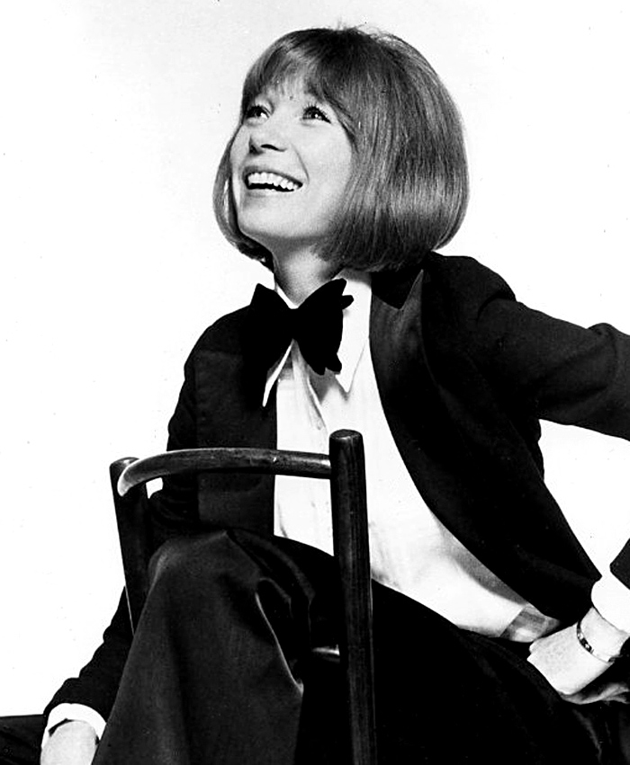 Publicity photo of Shirley MacLaine from "Live at the Palace Theatre" show.